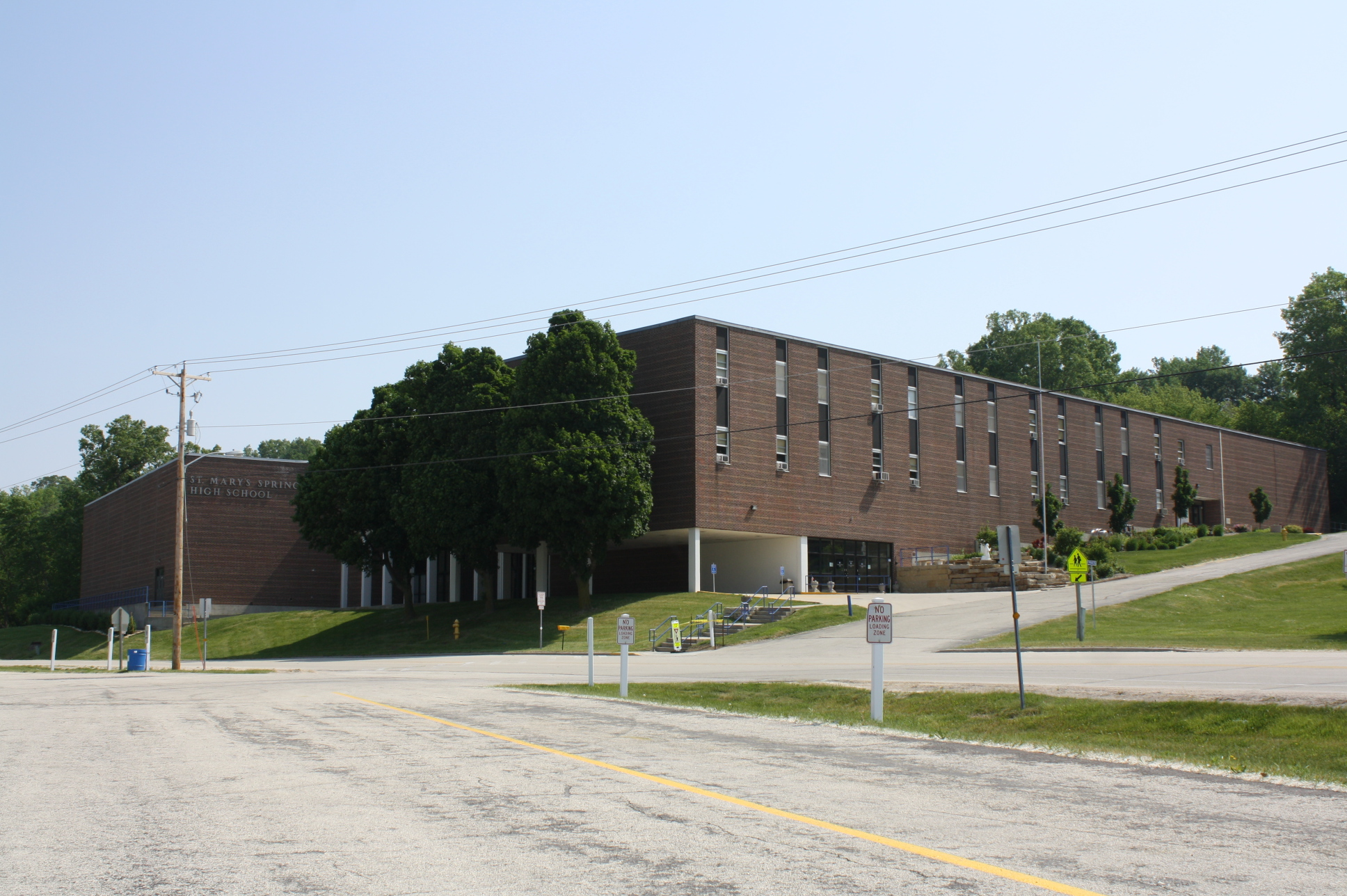 The entrance for St. Mary's Springs High School in Fond du Lac, Wisconsin along Wisconsin Highway 23.